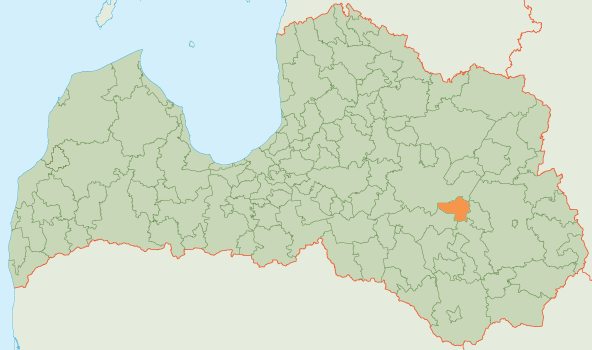 Map of Varakļāni municipality, Latvia